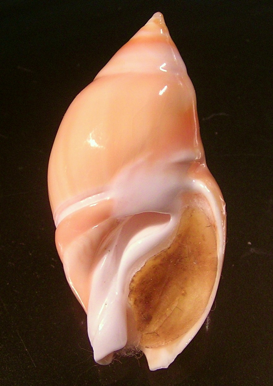 Eburna glabrata C. Linnaeus, 1758, family Olividae Category:Olividae